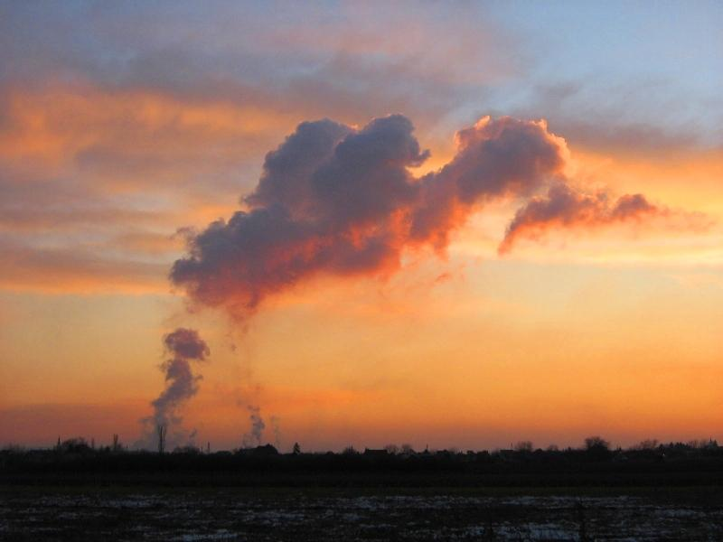 Azomures chemical factory at twilight